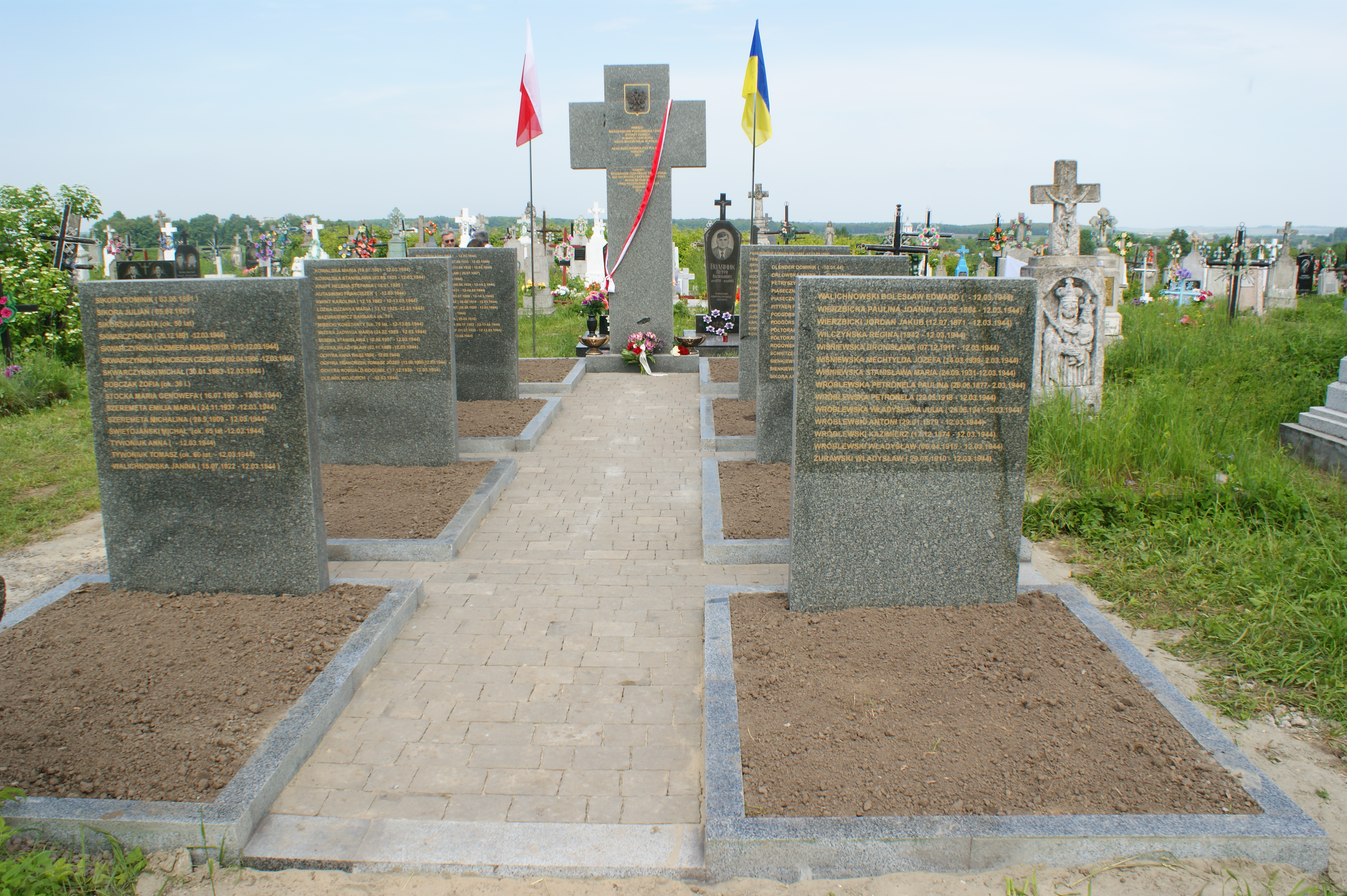 Monument of UPA victims in Podkamień